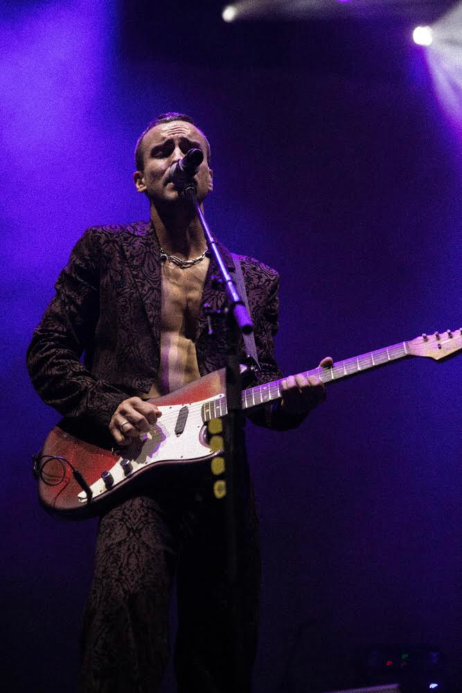 Gabriel playing a live show on tour in 2018